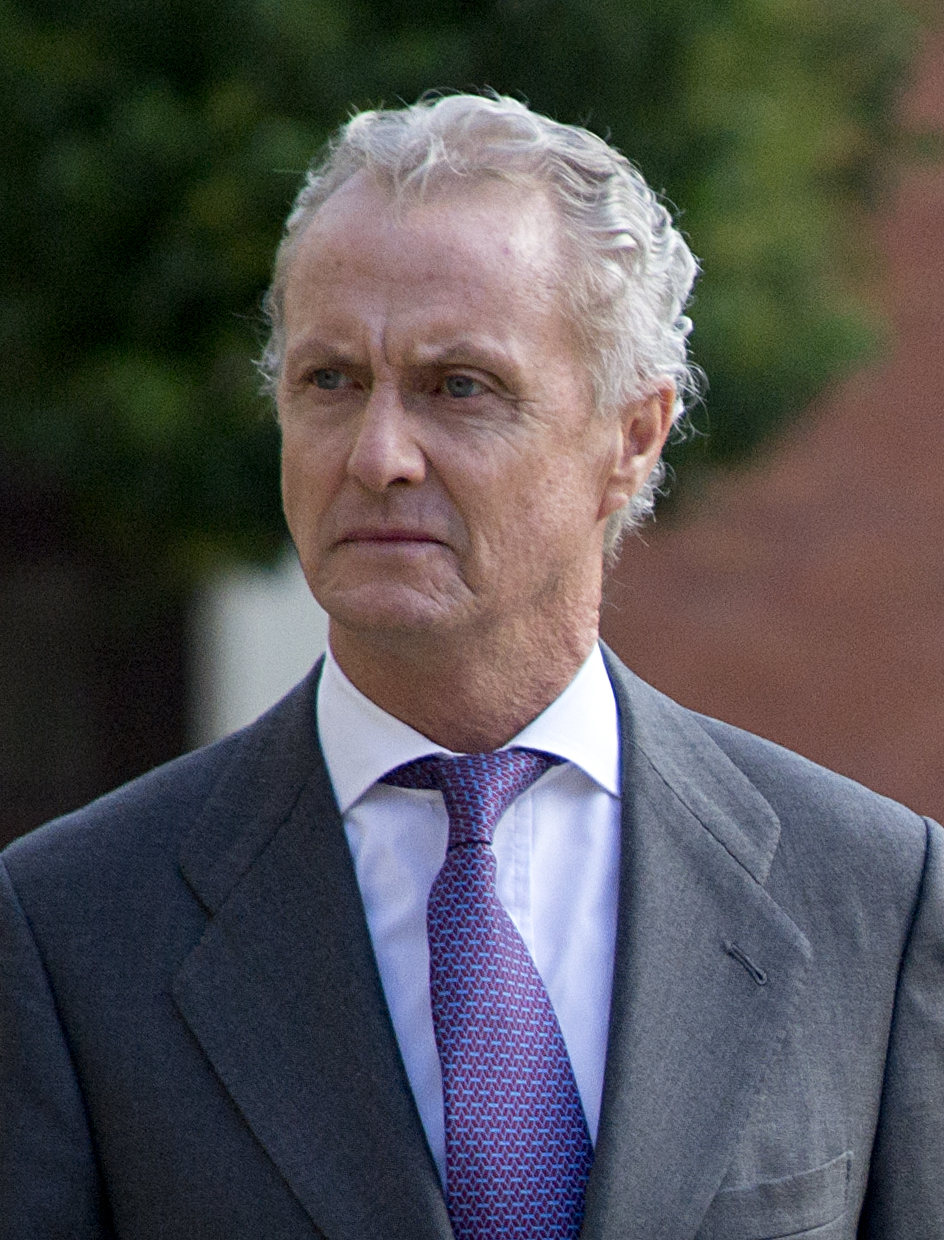 Pedro Morenés, Spain's Minister of Defence pictured in September 2012.